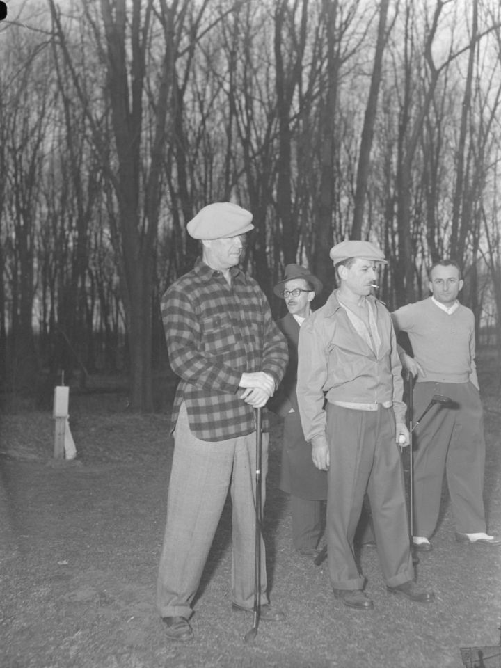 The fanciful French singer Maurice Chevalier, plaid shirt, playing golf at the golf club Islesmere of Sainte-Dorothée Laval.